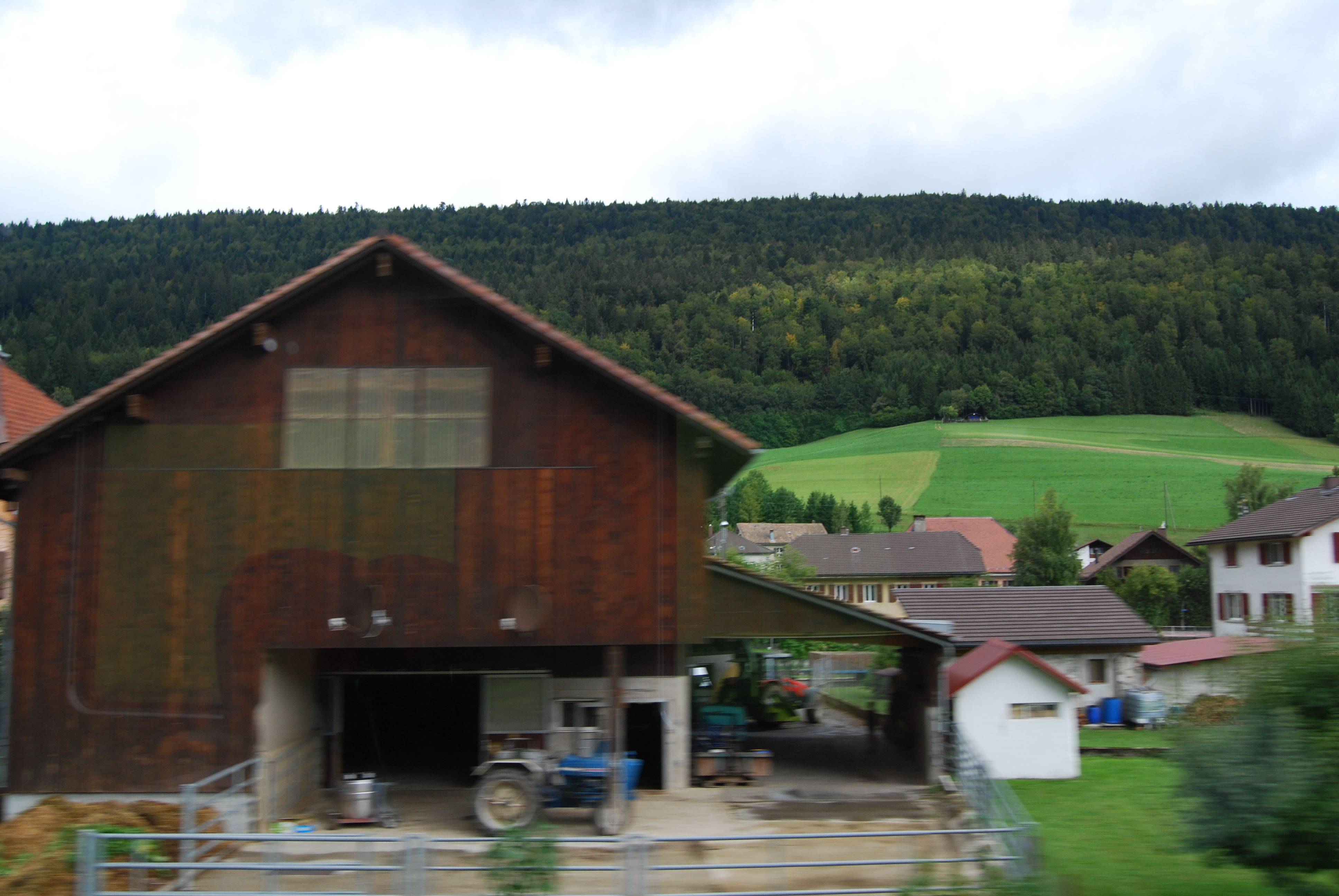 Cormoret, canton of Bern, SwitzerlandEsperanto: Cormoret, Kantono Berno, Svislando